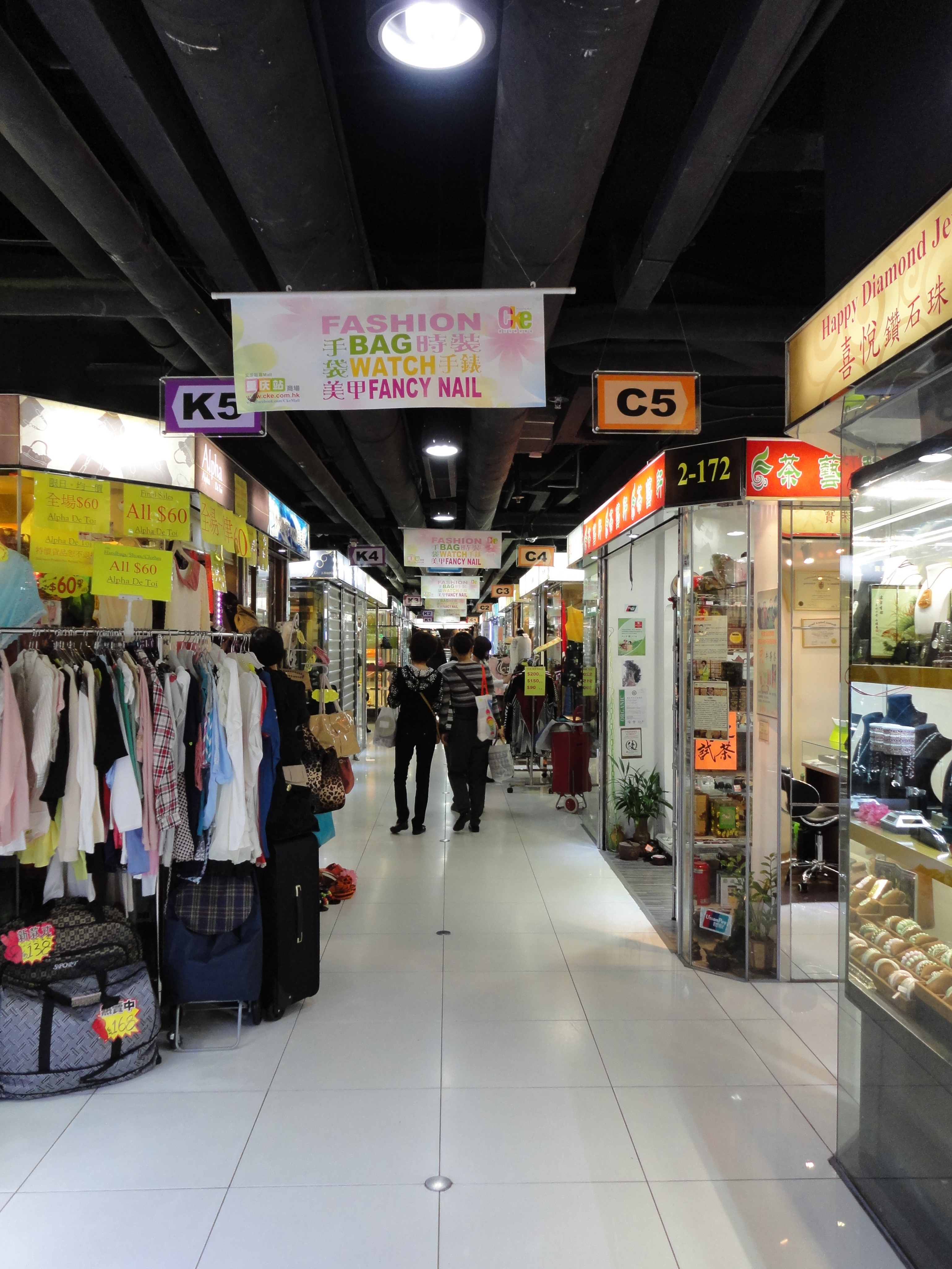 Shops in Cke (Chungking Express) shopping mall